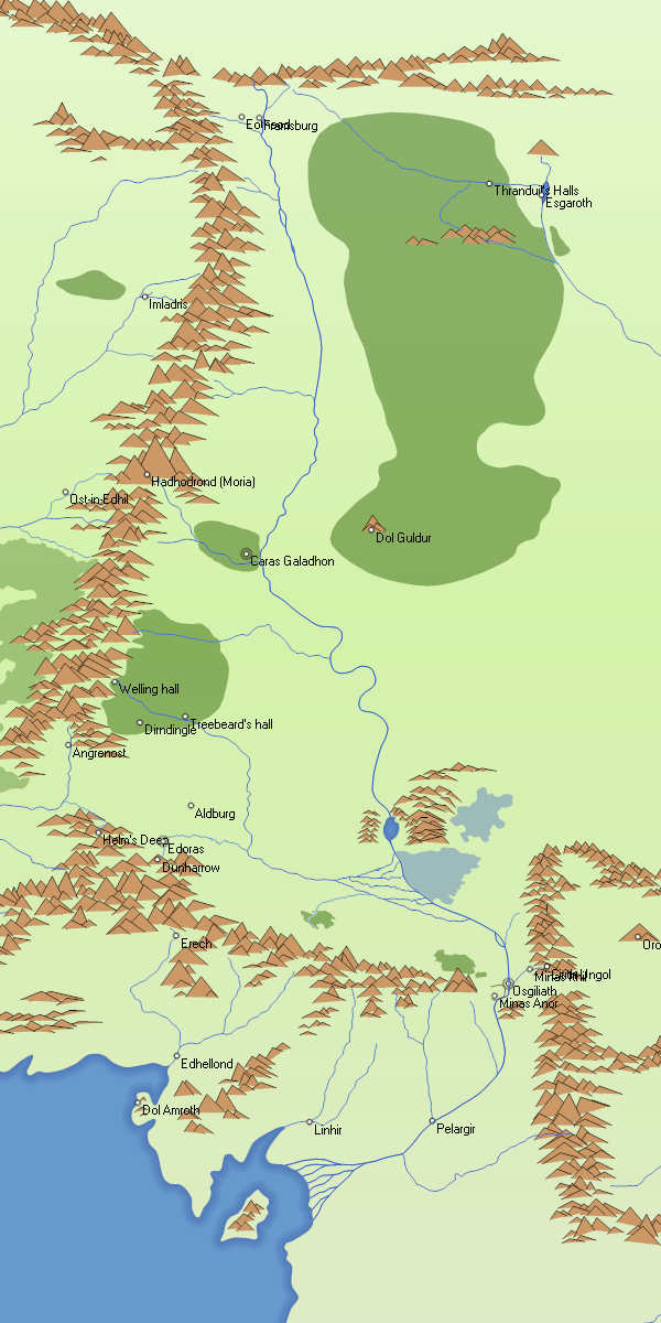 Map of the river Anduin and surrounding areas.